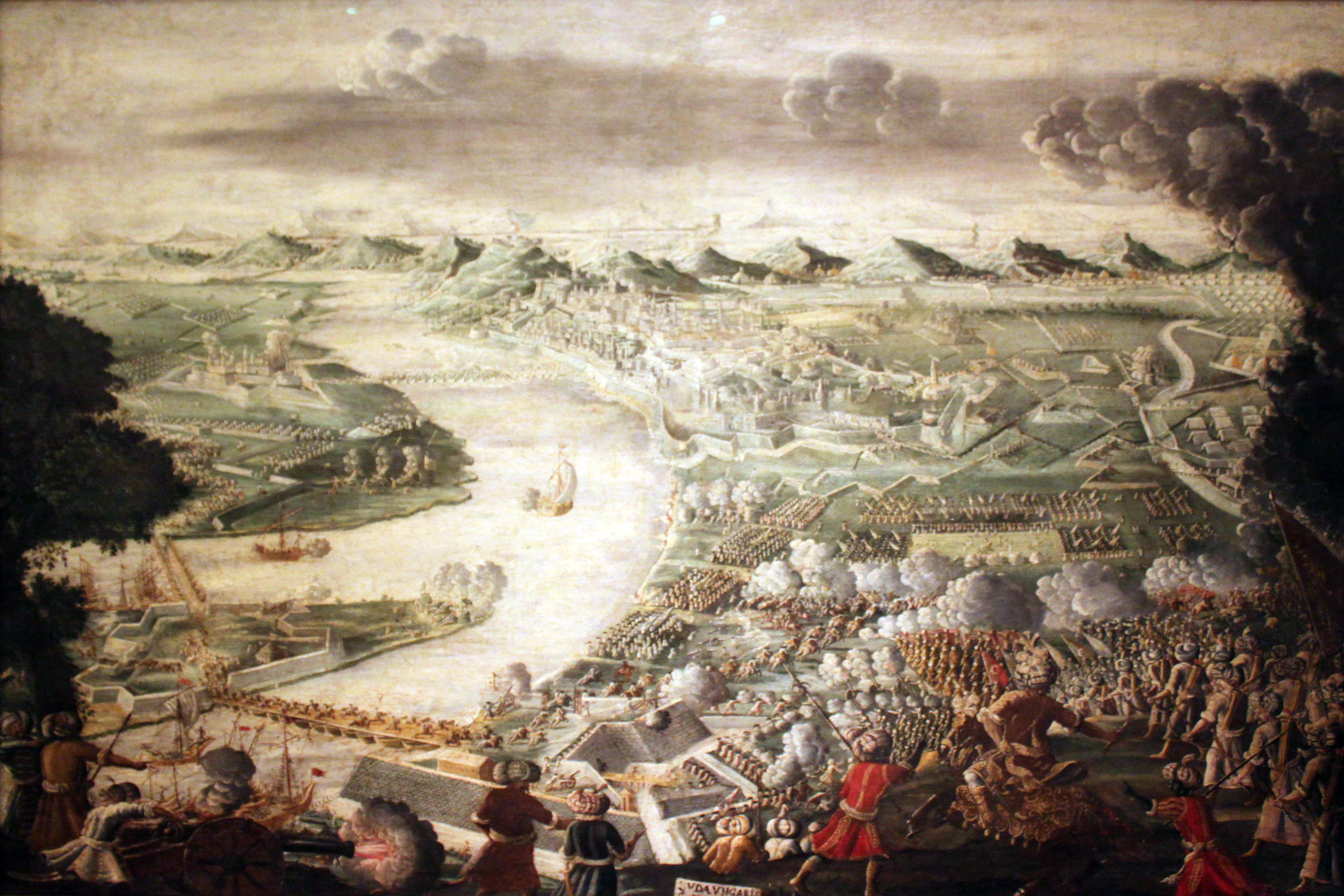 The taking of Buda, 1686